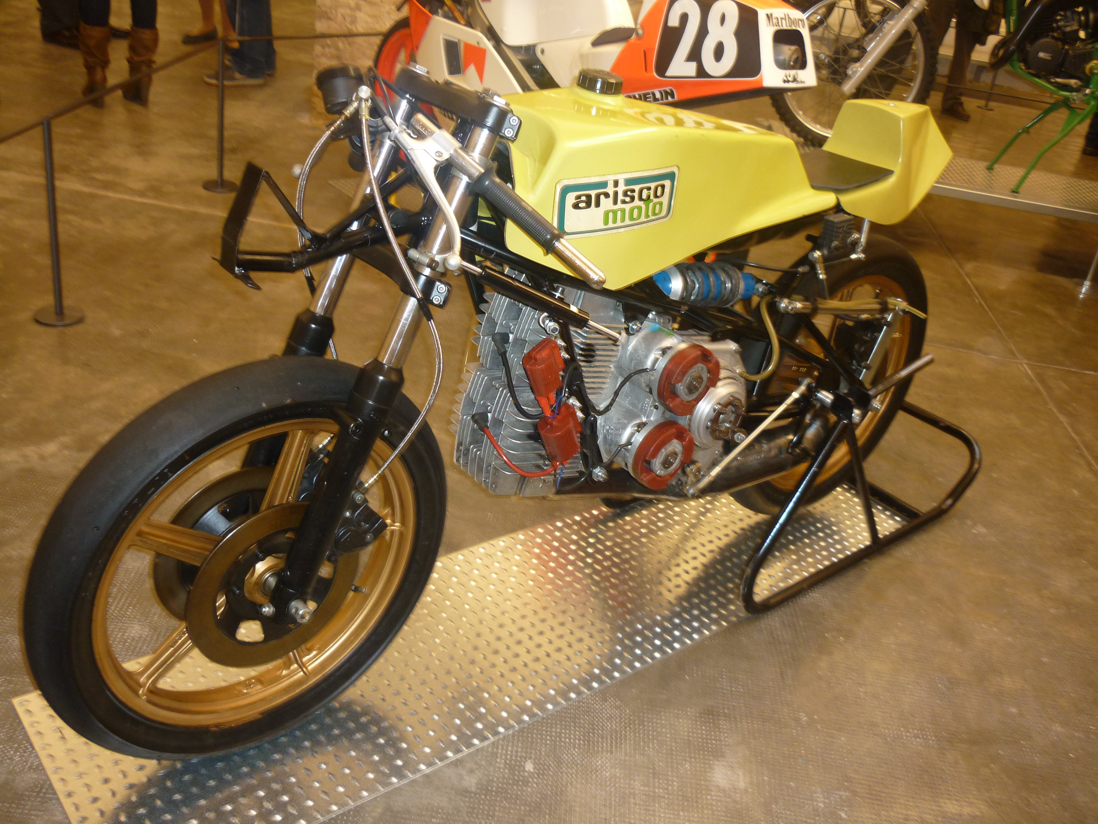 Arisco 250cc (1977), a prototye with a Tapias kart engine.Museu de la Moto de Barcelona (Catalonia).